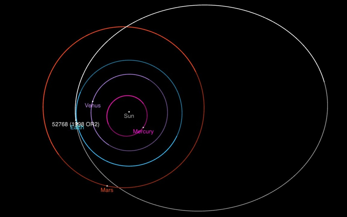 Sun in the middle, (52768) 1998 OR2 in the upper left of the image.